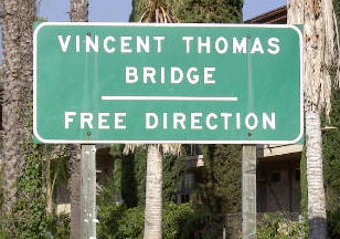 Eastbound entrance to Vincent Thomas Bridge fron N. Harbor Blvd. in San Pedro, CA